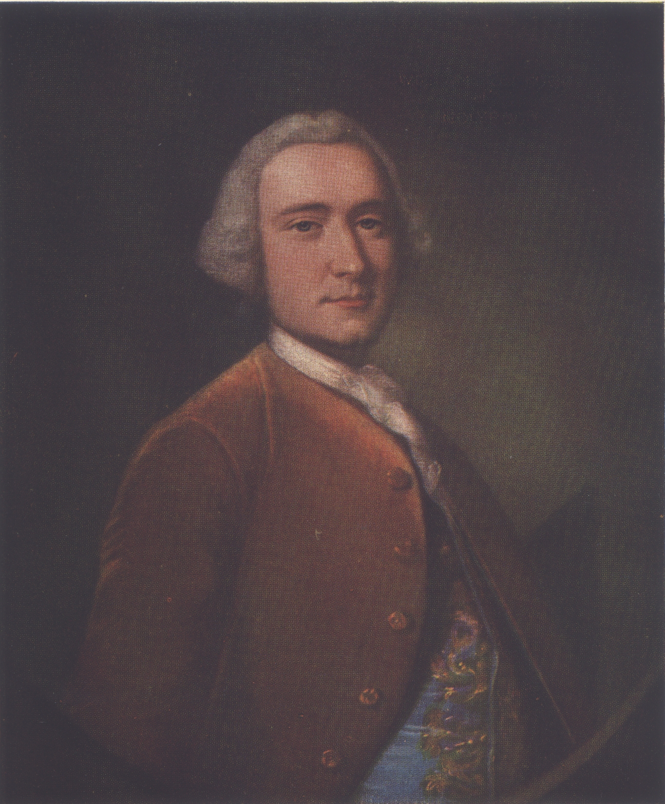 Portrait of William Younger (1733-1769) by Alan Ramsay